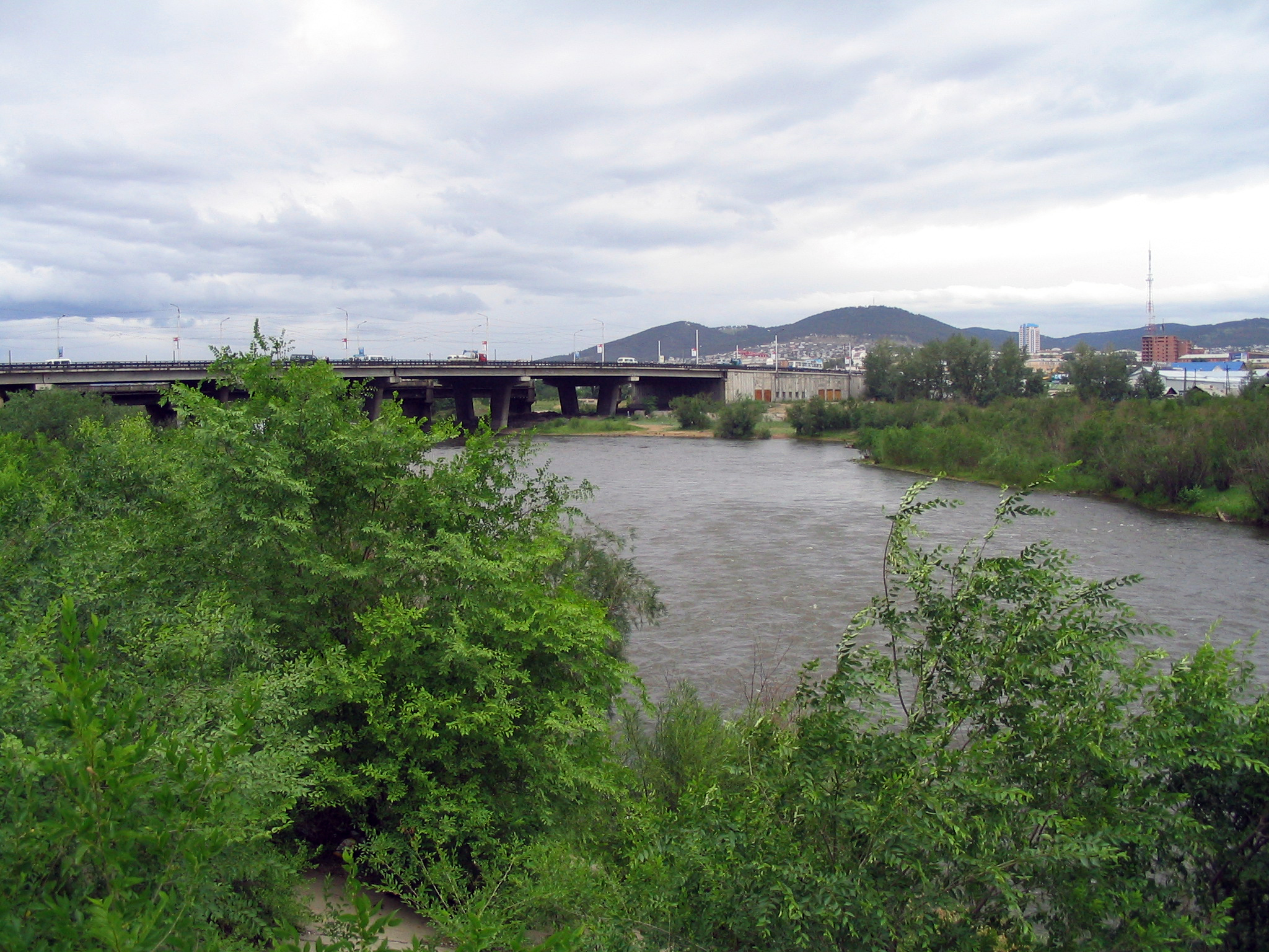 Uda River in Ulan Ude near its confluence with the Selenga River. Taken by me 7/06, released into public domain